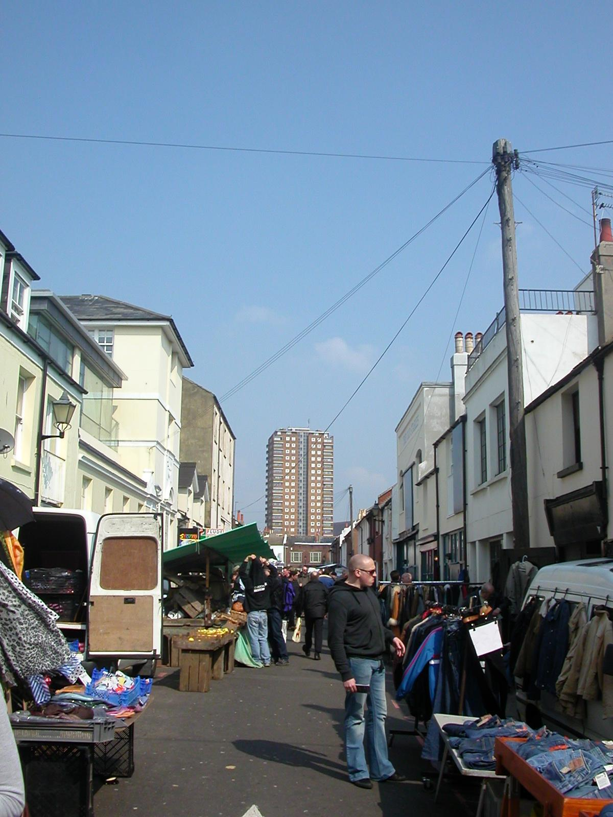 The Saturday market on Upper Gardner Street. Photographed on 31st March 2007.